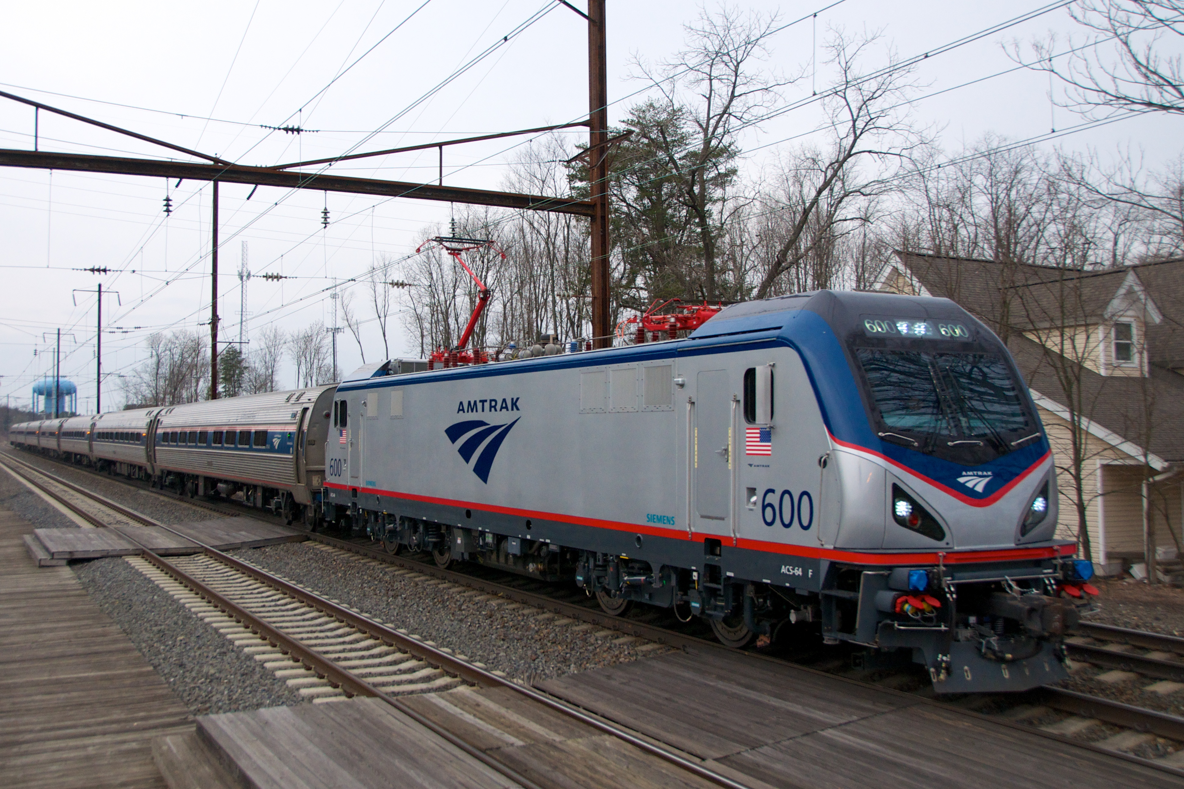 Amtrak's newest locomotive, ACS-64 #600, as it leads train 152 through Odenton on its second revenue run.